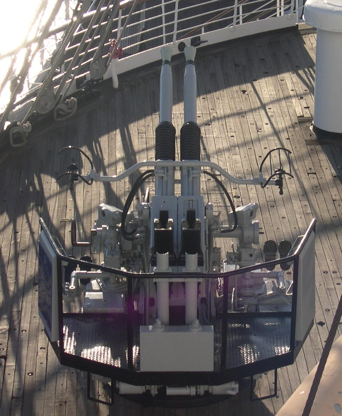 40 mm Bofors Cannon turret on deck RMS Queen Mary in Long Beach, CA Source: Photo by User:Sfoskett